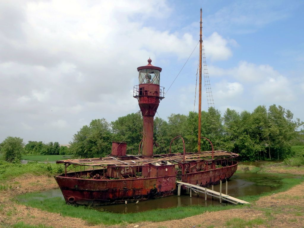 The Lightship (1910) at the Open Air Museum Fort Nieuw Amsterdam in Suriname served as a floating aid to navigation until the Second World War.